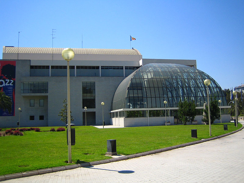 Side view of the Opera House - Palau de la Música - in Valencia, Spain